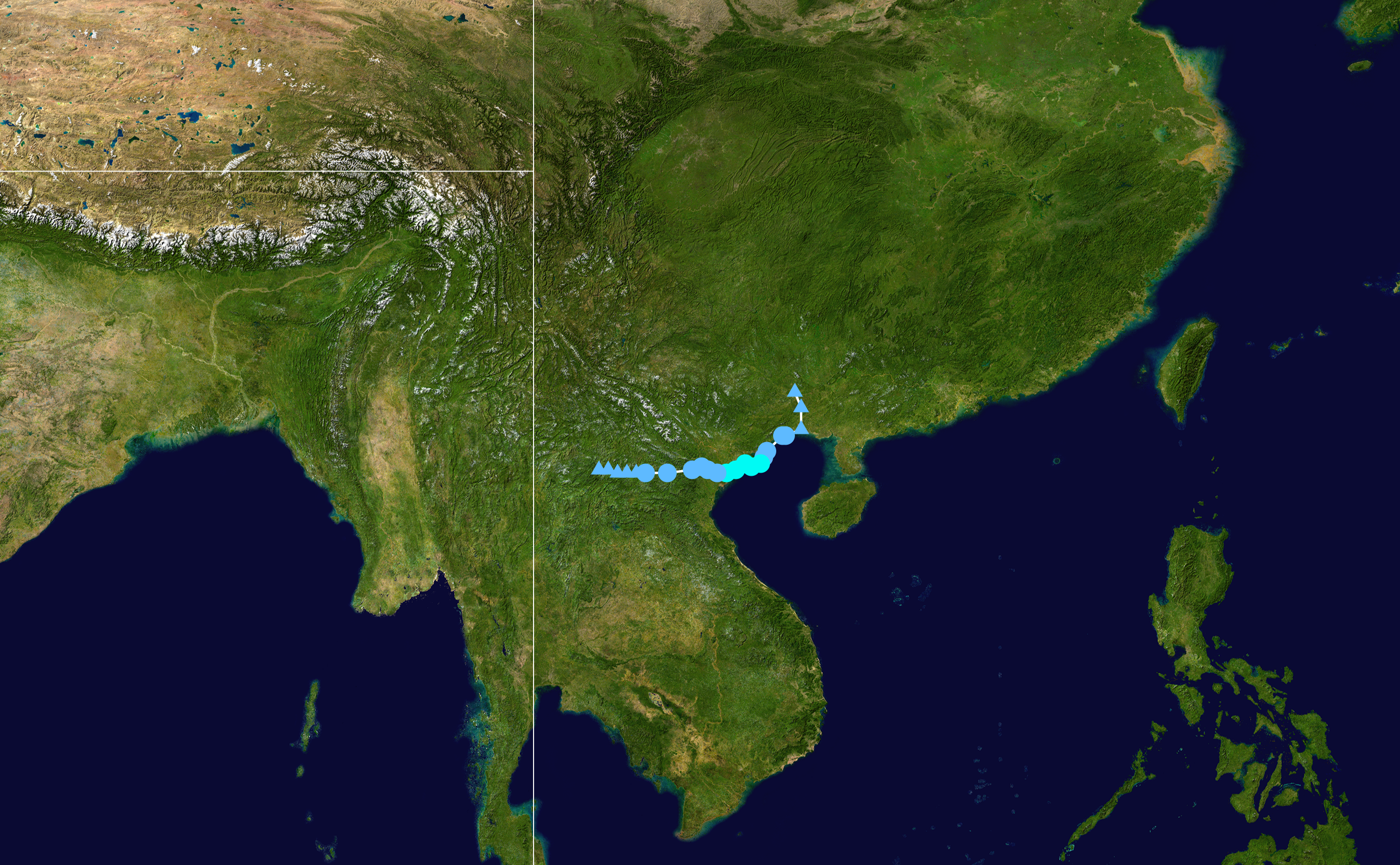 Tropical Storm Marty 1996 track. Uses the color scheme from the Saffir-Simpson Hurricane Scale.